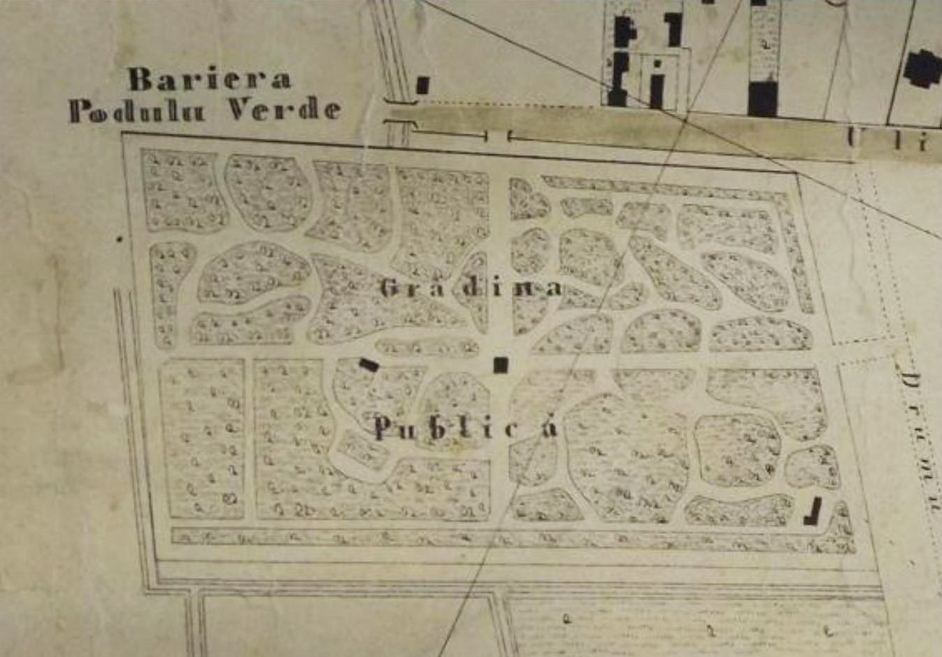 Copou Park (1857 sketch)